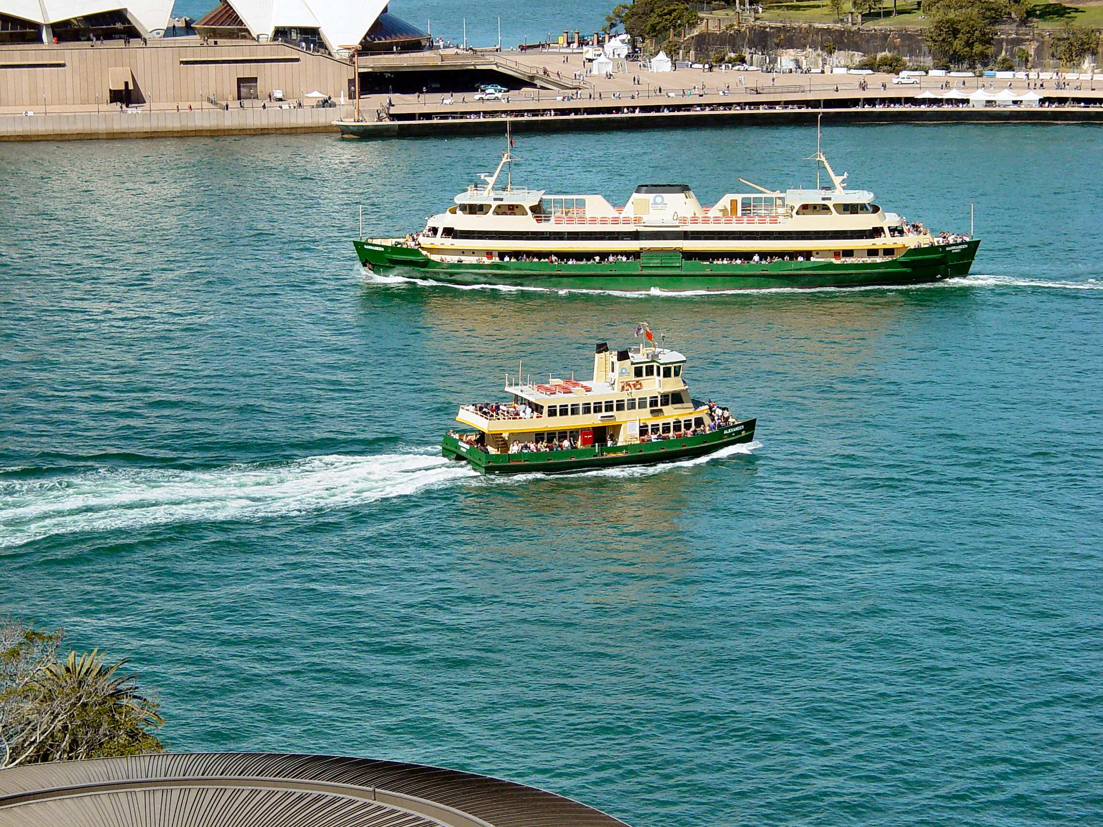 Two Ferries, the Narrabeen(top) and the Alexander(bottom) in Sydney in front of the Opera House at Circular Quay.